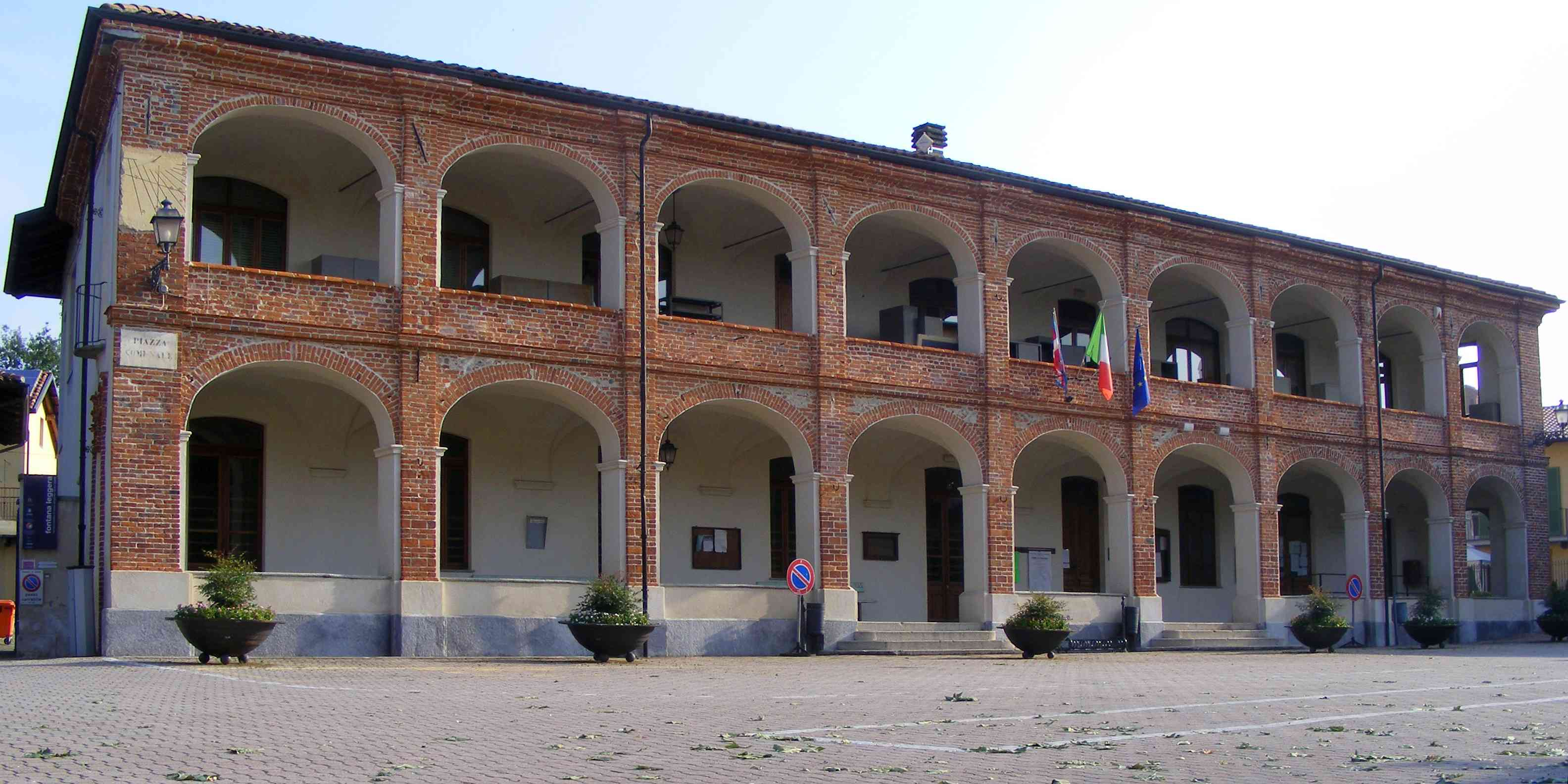 Bairo (TO, Italy): town hall